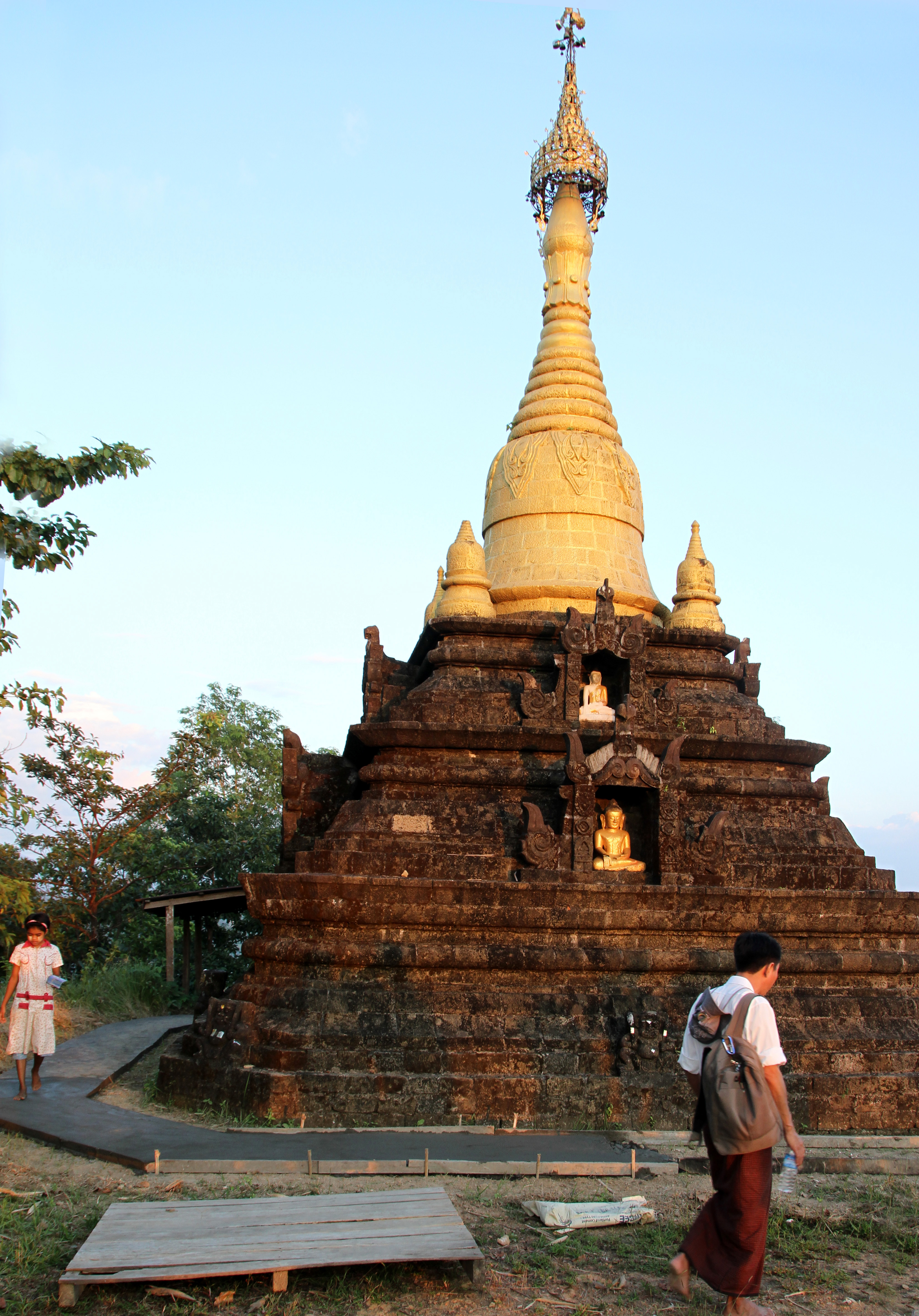 Haridaung Pagoda in Mrauk U, old capital in the Rakhine State in Myanmar.